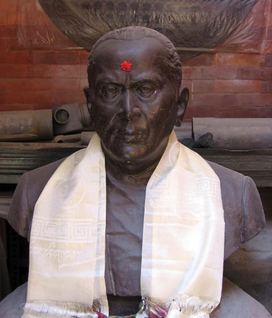 Bust of Nepalese politician and writer Prem Bahadur Kansakar (1918-1991).